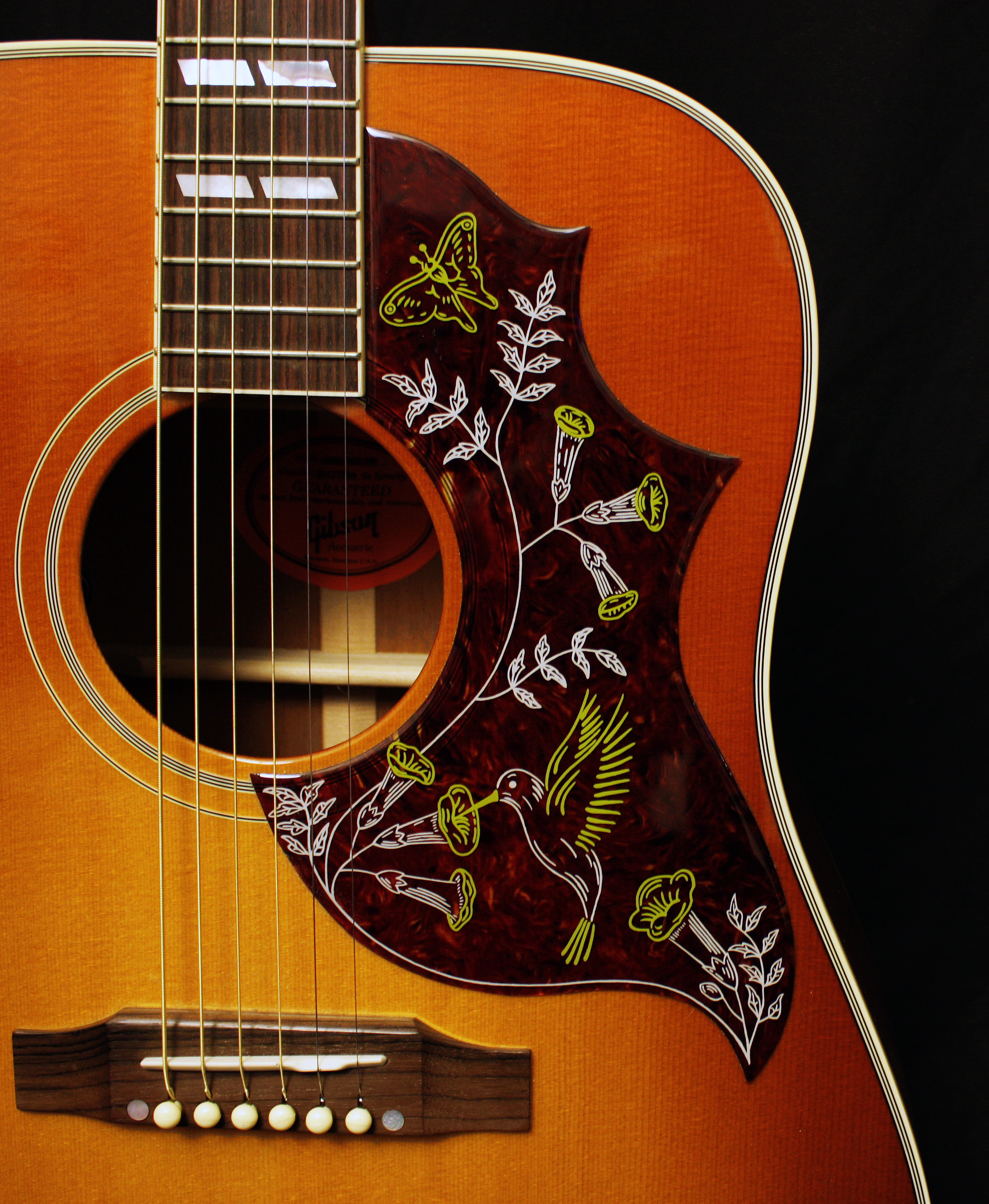 My pride and joy! 2005 Gibson Hummingbird. Plays and sounds like a dream!